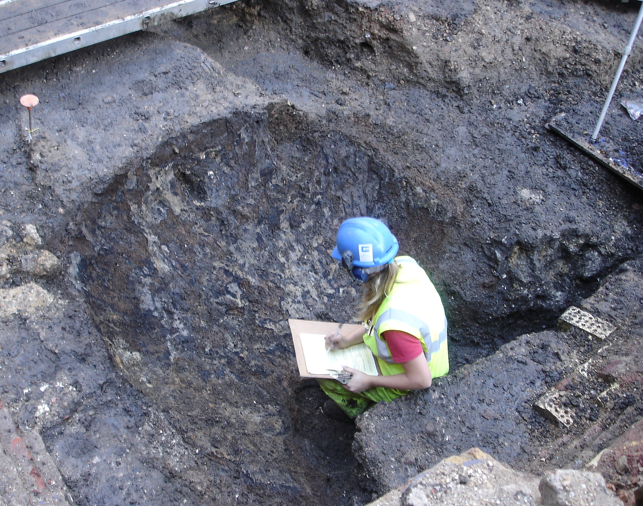 Late roman pit. Archaeological excavation shot